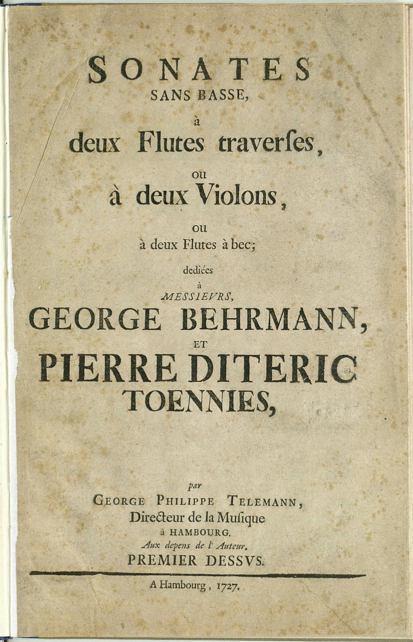 1727 Title page, TWV40 101-106